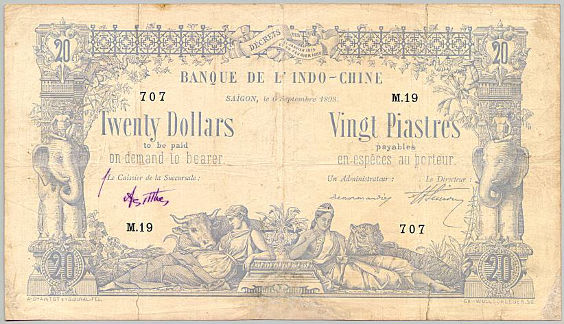 Image:20 Piastres 1898 back.jpgâ€Ž French Indochina, 20 Piastres 1898, Saigon Branch Fecit : A[lfred-Henri]. BRAMTOT et G[eorges]. DUVAL / Sculp. : Ch. WULLSCHLEGER ( from )